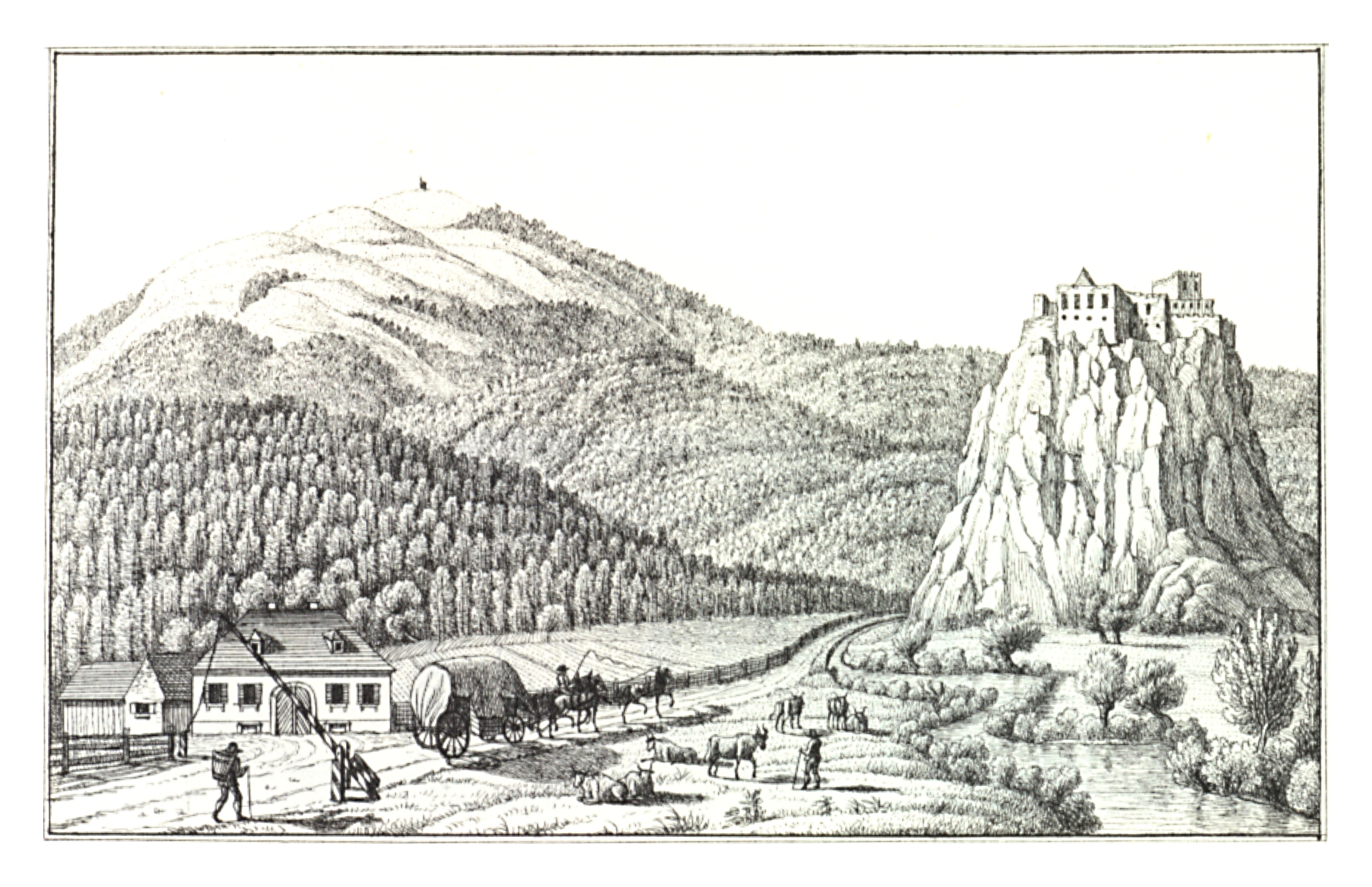 J. F. Kaiser - lithographirte Ansichten der Steyermärkischen Städte, Märkte und Schlösser Graz, 1825 Joseph Franz Kaiser (1786–1859) Alternative names J. F. KaiserDescriptionAustrian printer and editorDate of birth/death 11 March 1786 19 September 1859Location of birth/death Graz (Styria) GrazAuthority control : Q1499963 VIAF: 30629353 ISNI: 0000 0000 3083 0153 LCCN: n87141671 GND: 129880159 NLP: A24960305 WorldCat creator QS:P170,Q1499963 Scanprojekt Community Projektbudget 2012 This scan or this PDF-file was created within the GLAM-project Bookscanning, supported by Wikimedia Germany and Wikimedia Austria as a part of the community-project to capture books, documents and pictures which are not eligible to copyright or for which the copyright has expired. This document describes or depicts an object which is located in Austria today. Send requests for uncompressed scans to Hubertl. This work is in the public domain in its country of origin and other countries and areas where the copyright term is the author's life plus 100 years or less. You must also include a United States public domain tag to indicate why this work is in the public domain in the United States. This file has been identified as being free of known restrictions under copyright law, including all related and neighboring rights.